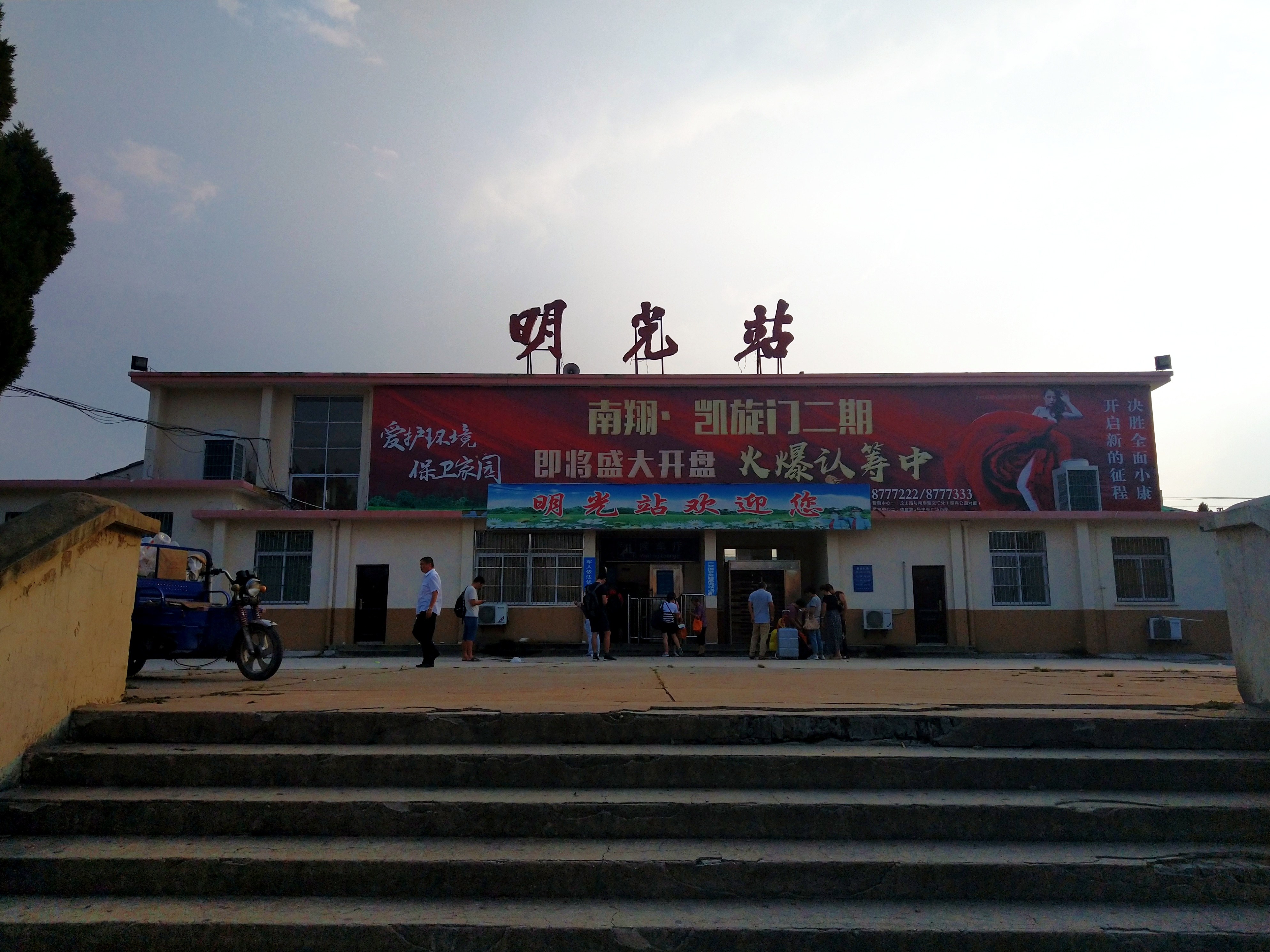 Mingguang Railway Station